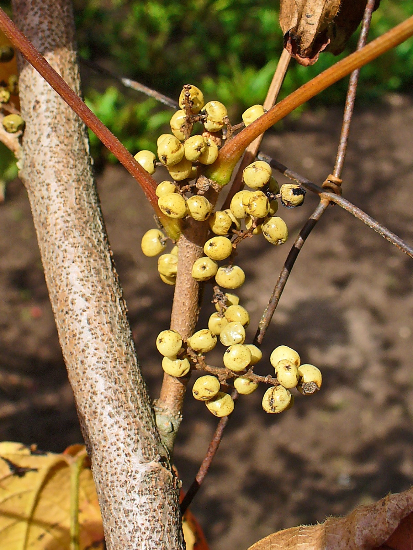 Toxicodendron radicans, Anacardiaceae, Poison Ivy, fruits.